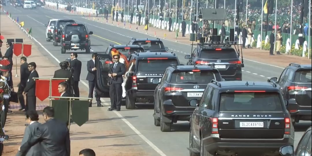 Prime Minister Narendra Modi's Security Personnel with convoy